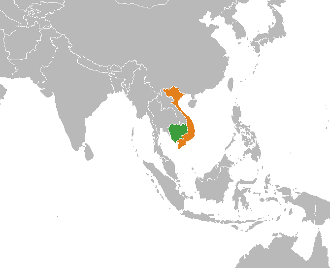 Cropped and colored from Image:BlankMap-World-large.png